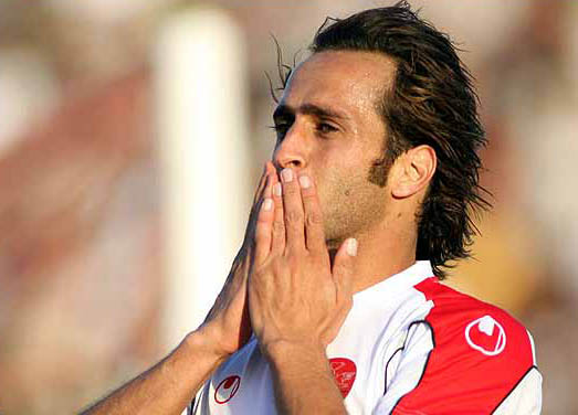 Ali Karimi, player of Perspolis FC during their Persian Gulf Pro League match against Abu Muslim October 9, 2008